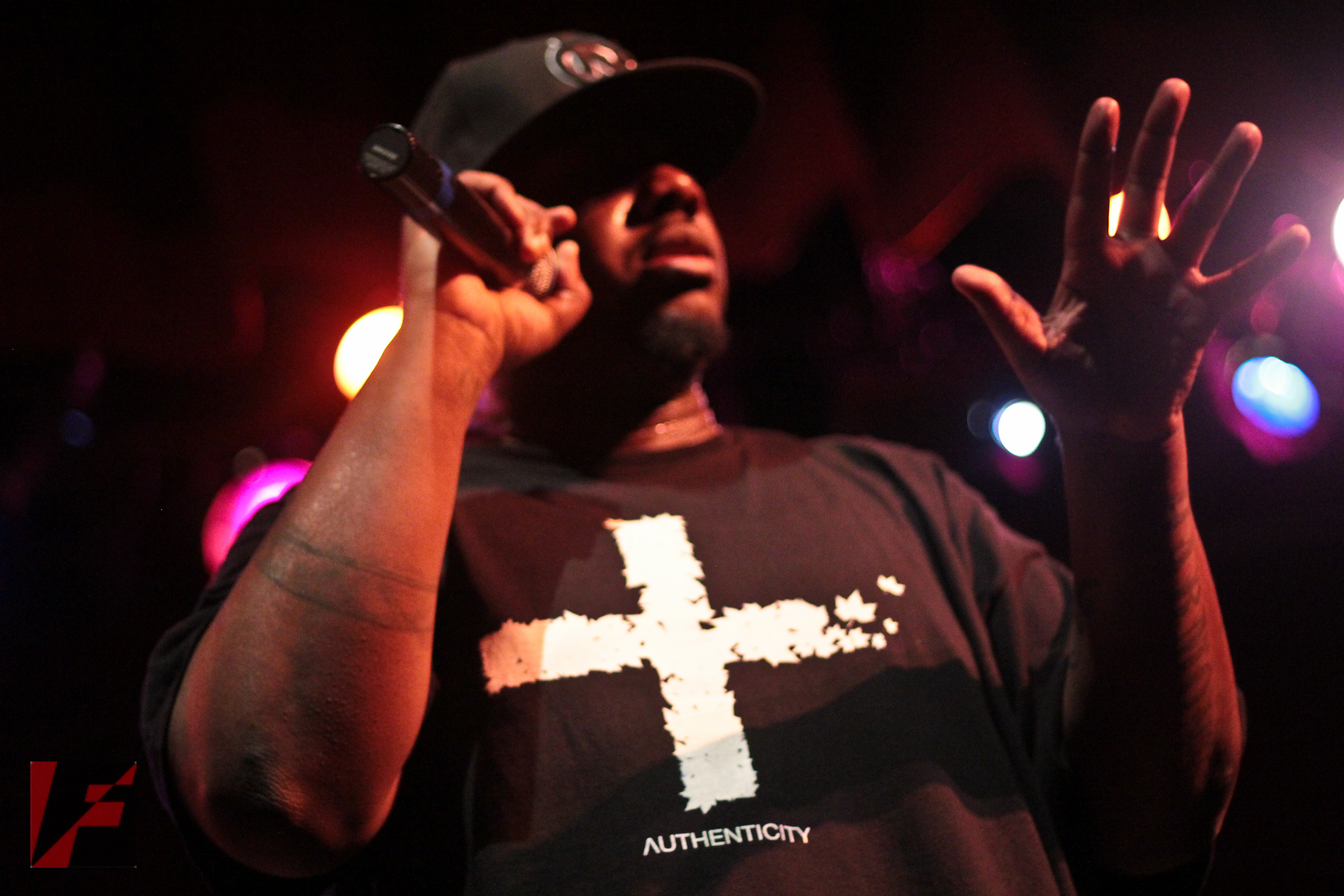 Phonte performing as part of The Foreign Exchange in Indianapolis in 2011